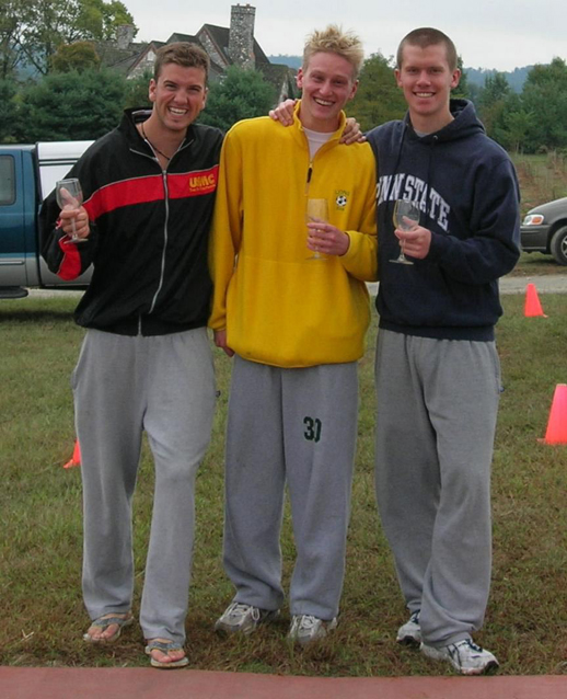 Personal photo.